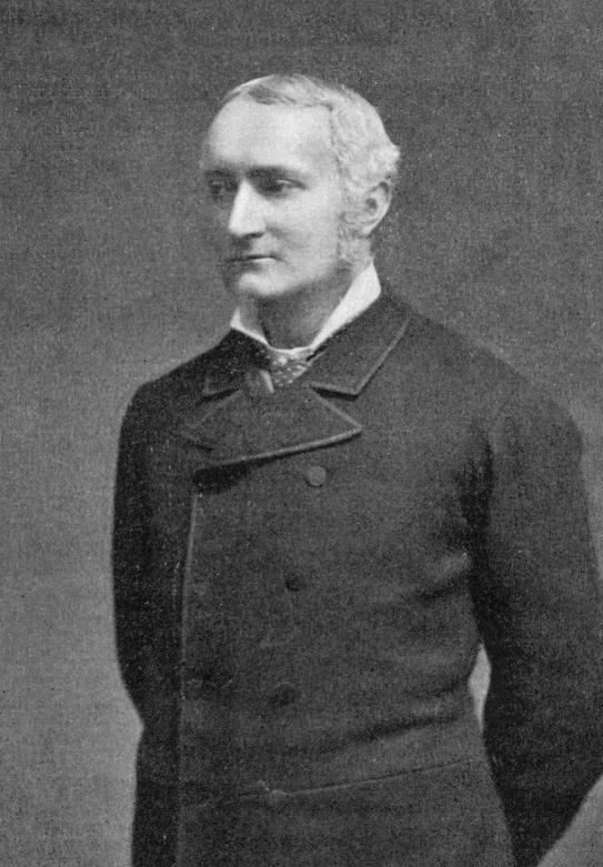 William Morrant Baker, F.R.C.S. Doctor who described the Baker's cyst in the knee.